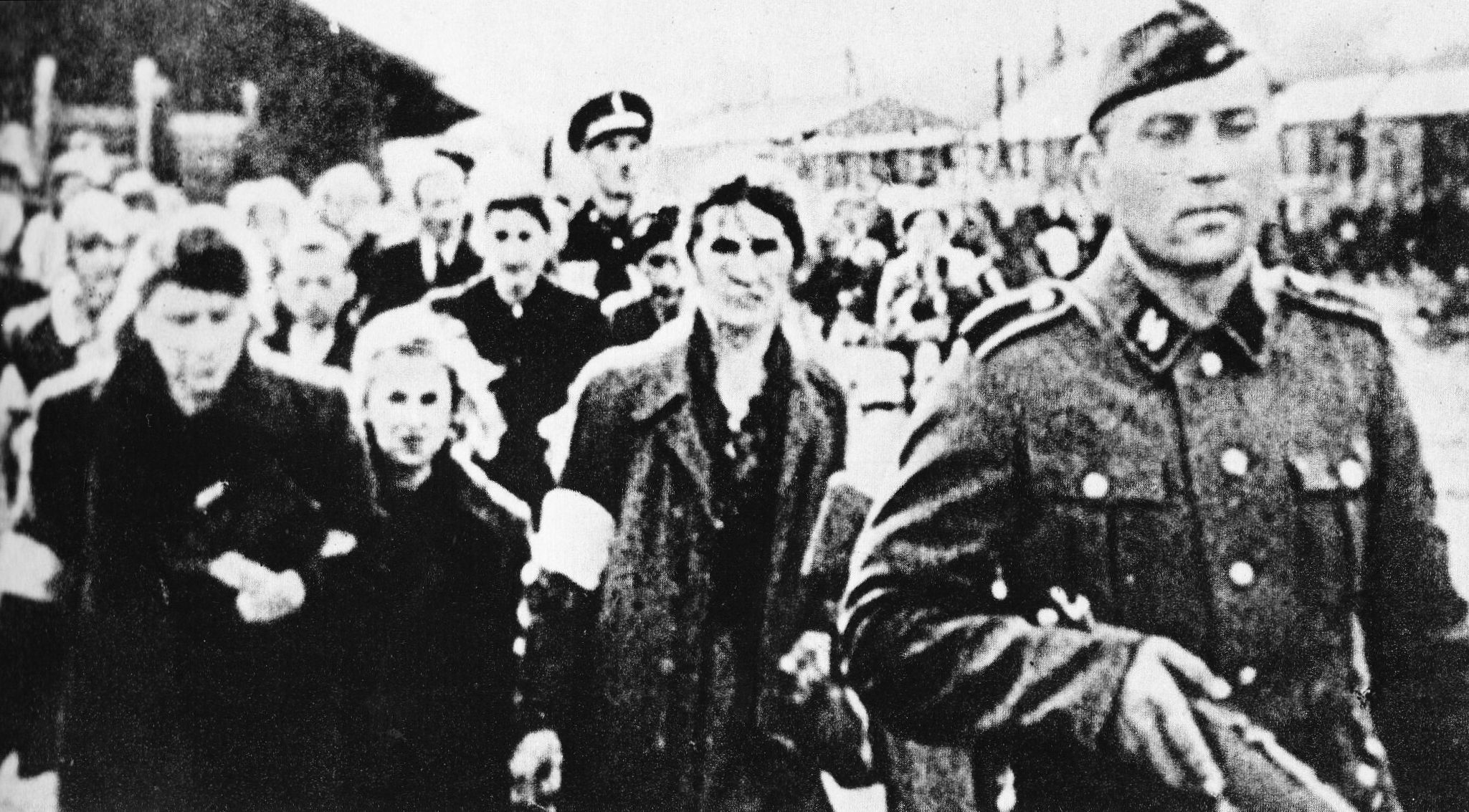 Jews in Umschlagplatz in Warsaw